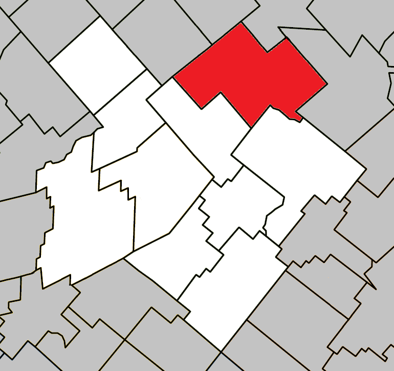 Location of Lyster, Quebec within L'Érable Regional County Municipality.